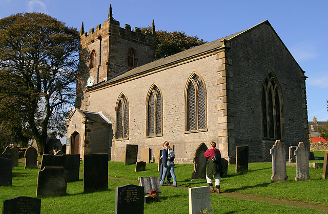 St Margaret's Church, Wetton